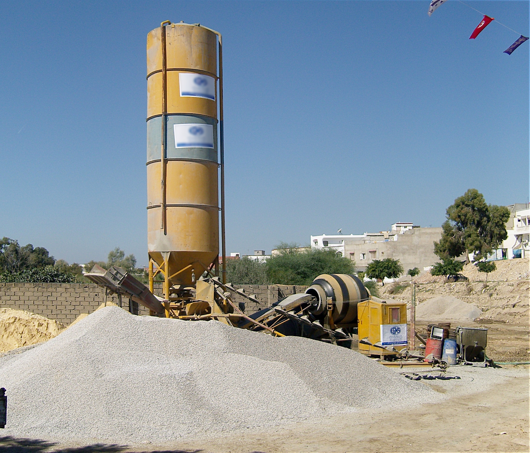 Concrete mixer on a site of public works (bridge beams) located at Korba.